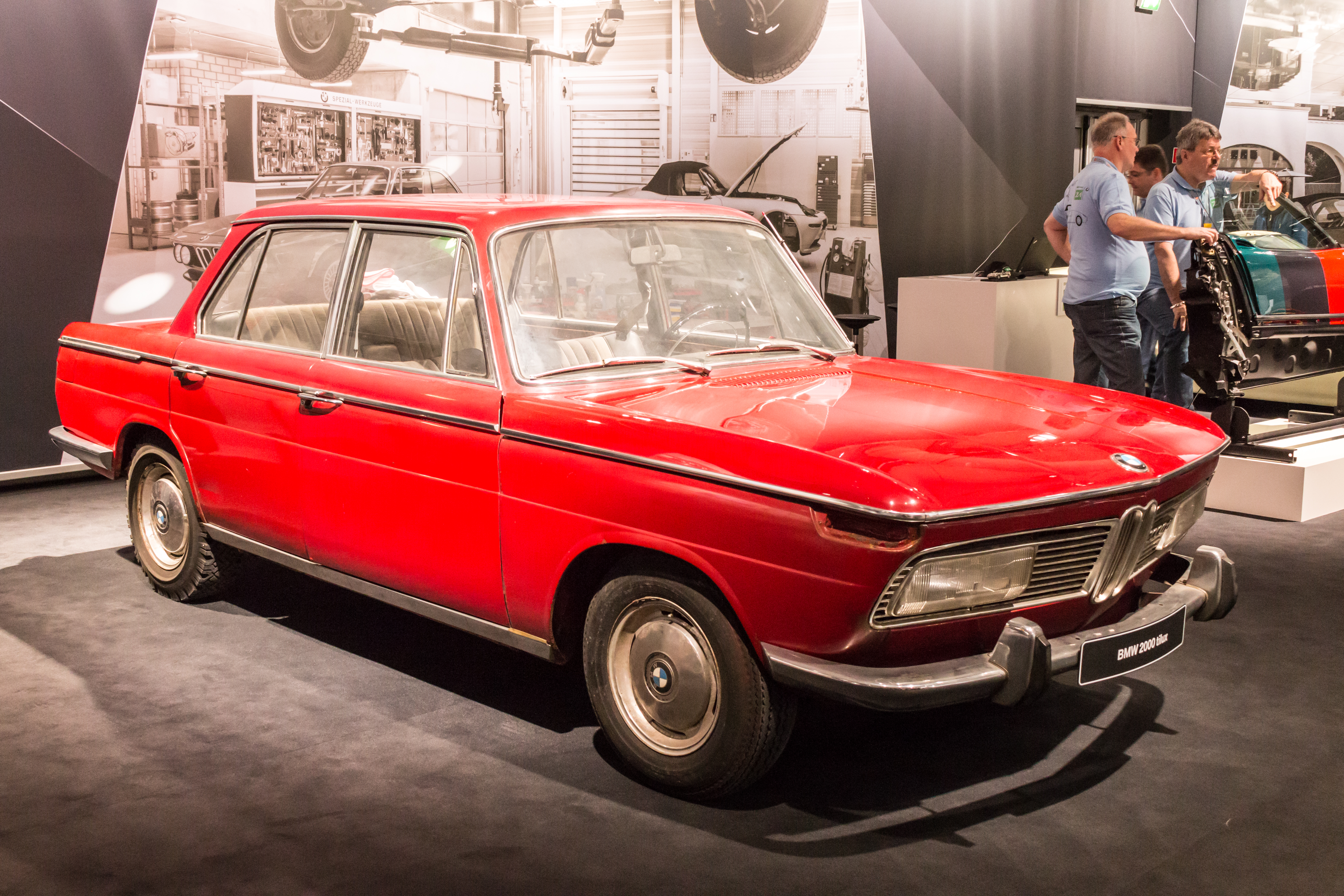 BMW, Techno-Classica 2018, Essen